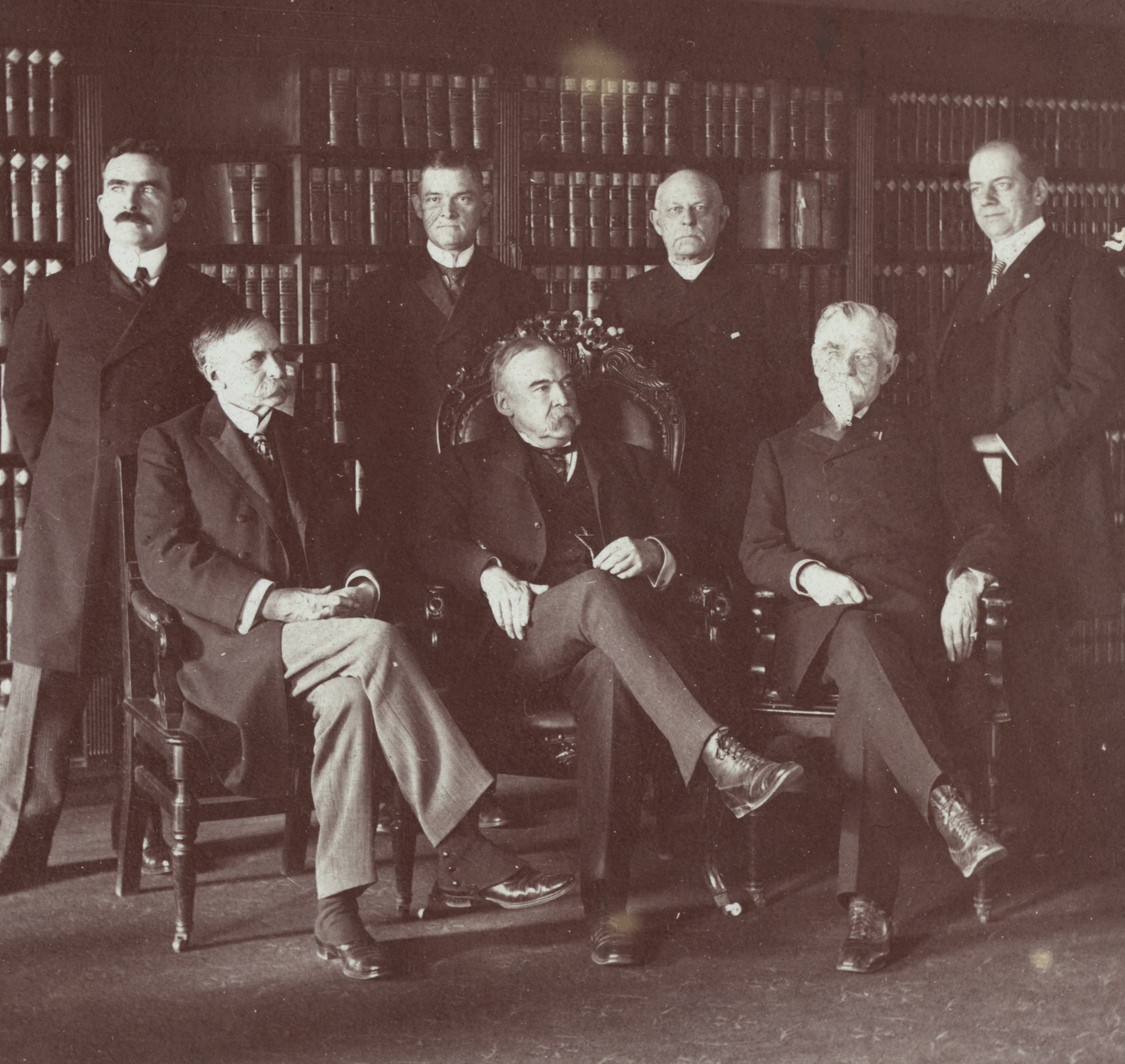 Commission appointed by President Roosevelt to resolve the Coal Strike of 1902, photographed by William H. Rau. Cropped from a larger stereo card located here.